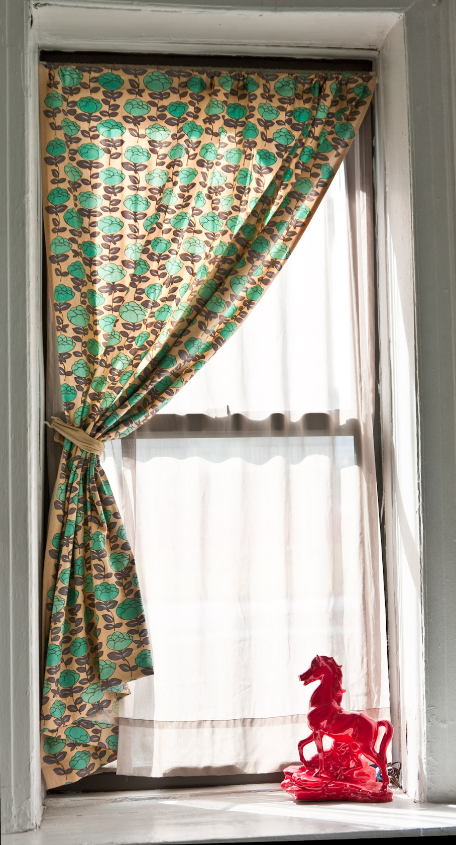 Single curtain on one side of a window, net curtain, and horse statuette.